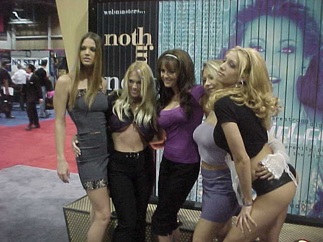 Temptress, Missy, Devinn Lane, Serenity, Alex Rae at CES & IA2000